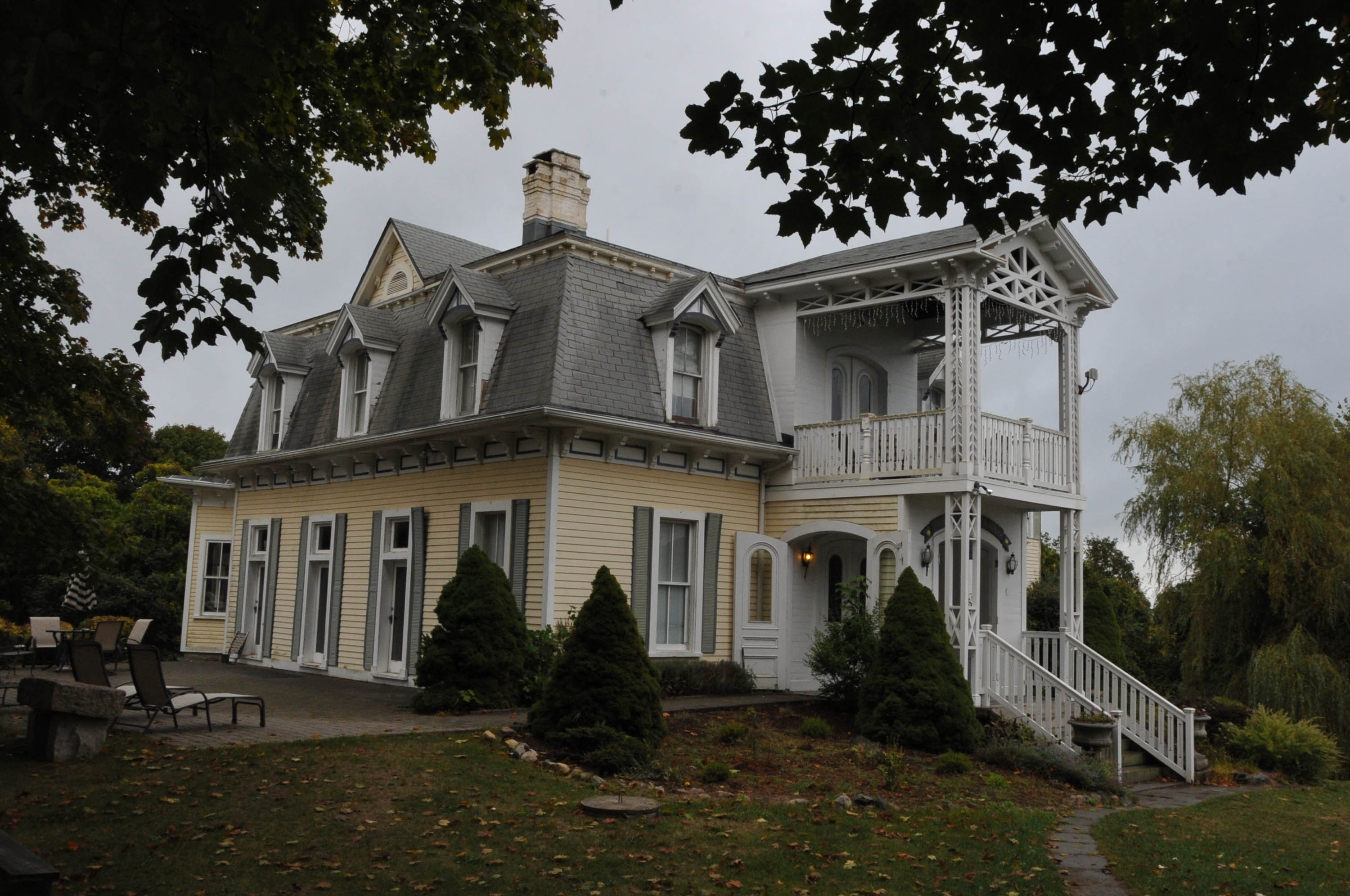 EUGENE O’NEILL THEATER CENTER; FORMERLY WALNUT GROVE AND HAMMOND ESTATE, THE O’NEILL FOUNDATION WAS FOUNDED IN 1964 AND HAS PIONEERED DEVELOPED NEW PLAYS AND MUSICALS. THE COMPLEX HAS SEVERAL MANSION-LIKE HOUSES AND 4 THEATERS – TWO INDOOR AND TWO OUTDOOR.